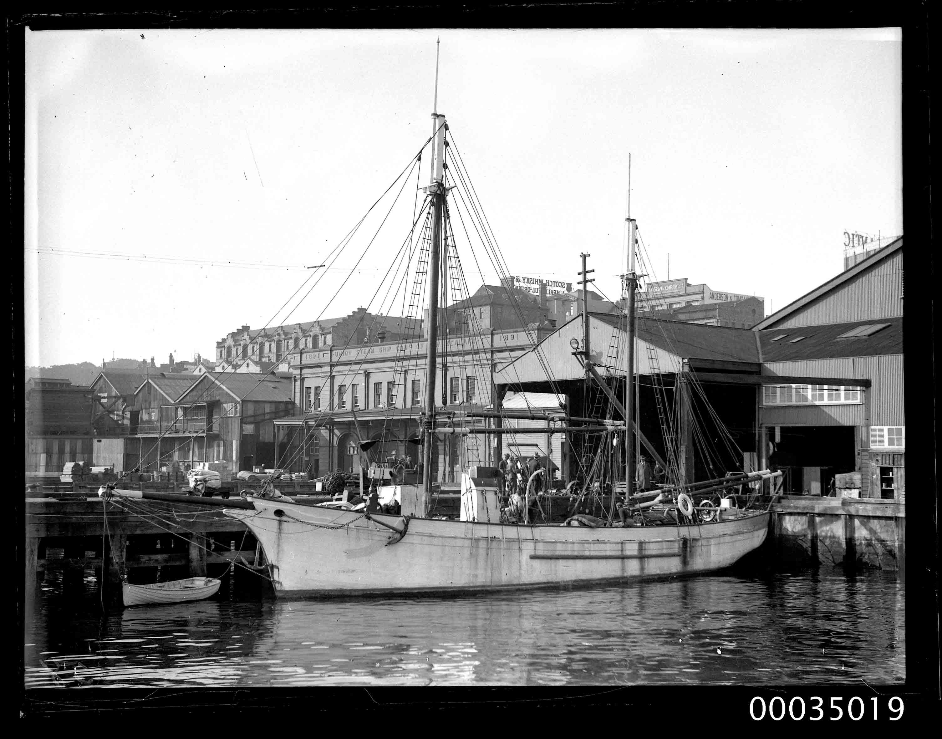 This photograph depicts the sailing ketch CORWA berthed near the Union Steam Ship Company of New Zealand's wharf in Darling Harbour. The company's wharf was situated next to the North Coast Steam Navigation Company's wharf. This photo is part of the Australian National Maritime Museum’s Samuel J. Hood Studio collection. Sam Hood (1872-1953) was a Sydney photographer with a passion for ships. His 60-year career spanned the romantic age of sail and two world wars. The photos in the collection were taken mainly in Sydney and Newcastle during the first half of the 20th century. The ANMM undertakes research and accepts public comments that enhance the information we hold about images in our collection. This record has been updated accordingly. Photographer: Samuel J. Hood Studio Collection Object no. 00035019